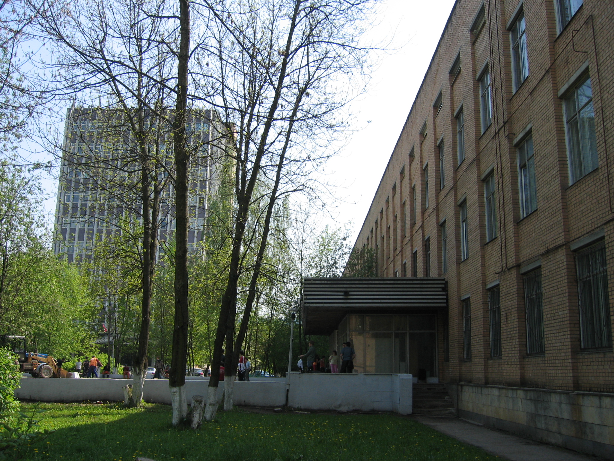 Moscow Institute of Physics and Technology in Dolgoprudny, Moscow Oblast, Russia